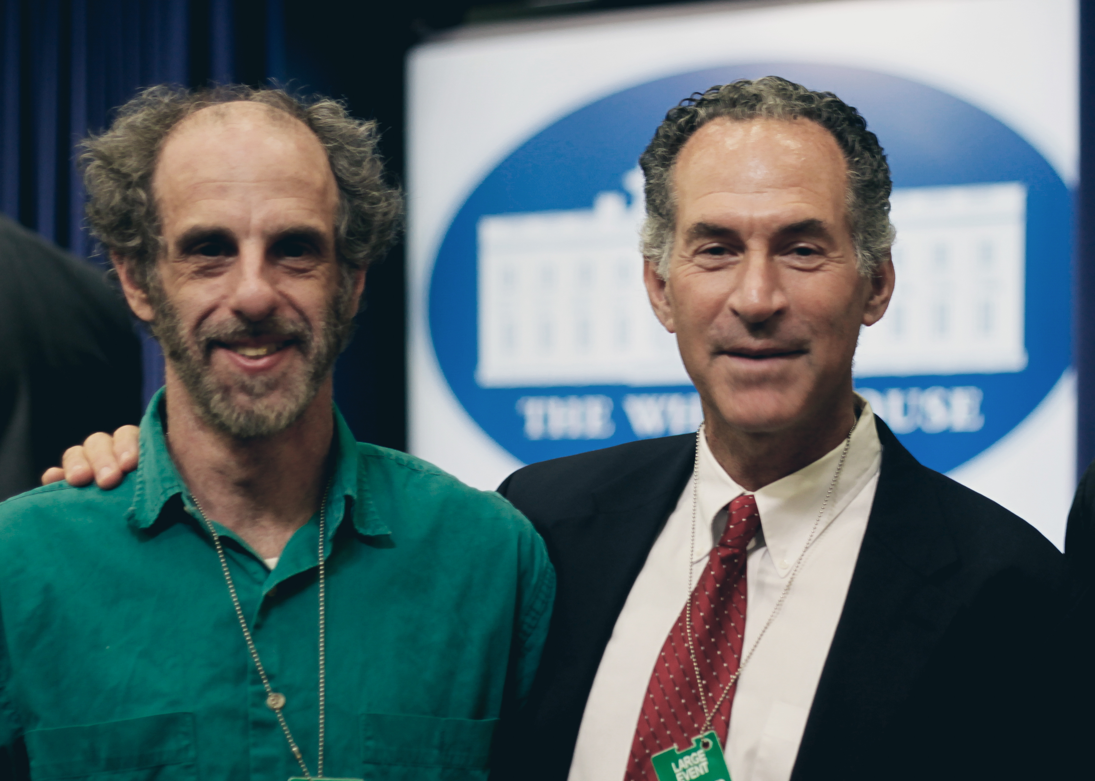 On June 20, 2013 The White House recognized Champions of Change in Open Science. Photo by Brian Glanz, founder of the Open Science Federation and co-founder of Open Knowledge Foundation America.